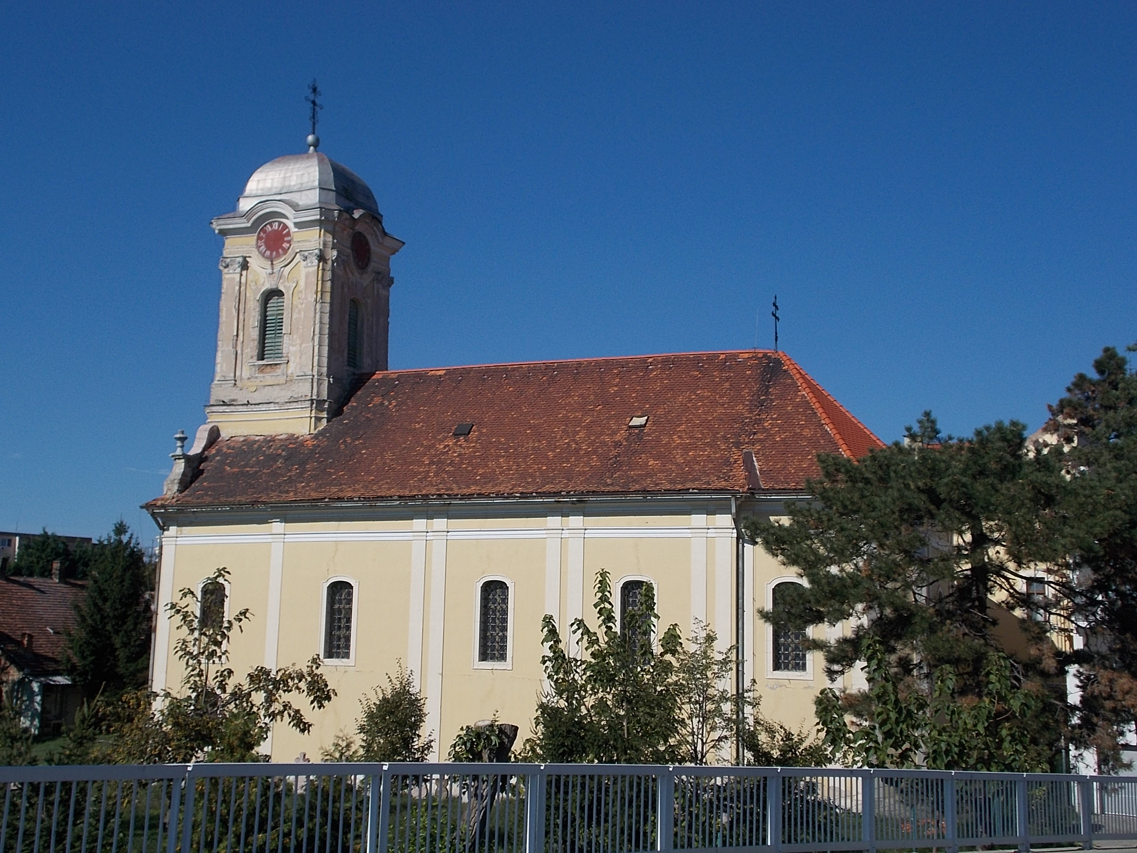 Eastern Orthodox church. - Komárno, Komárno District, Nitra Region, Slovakia